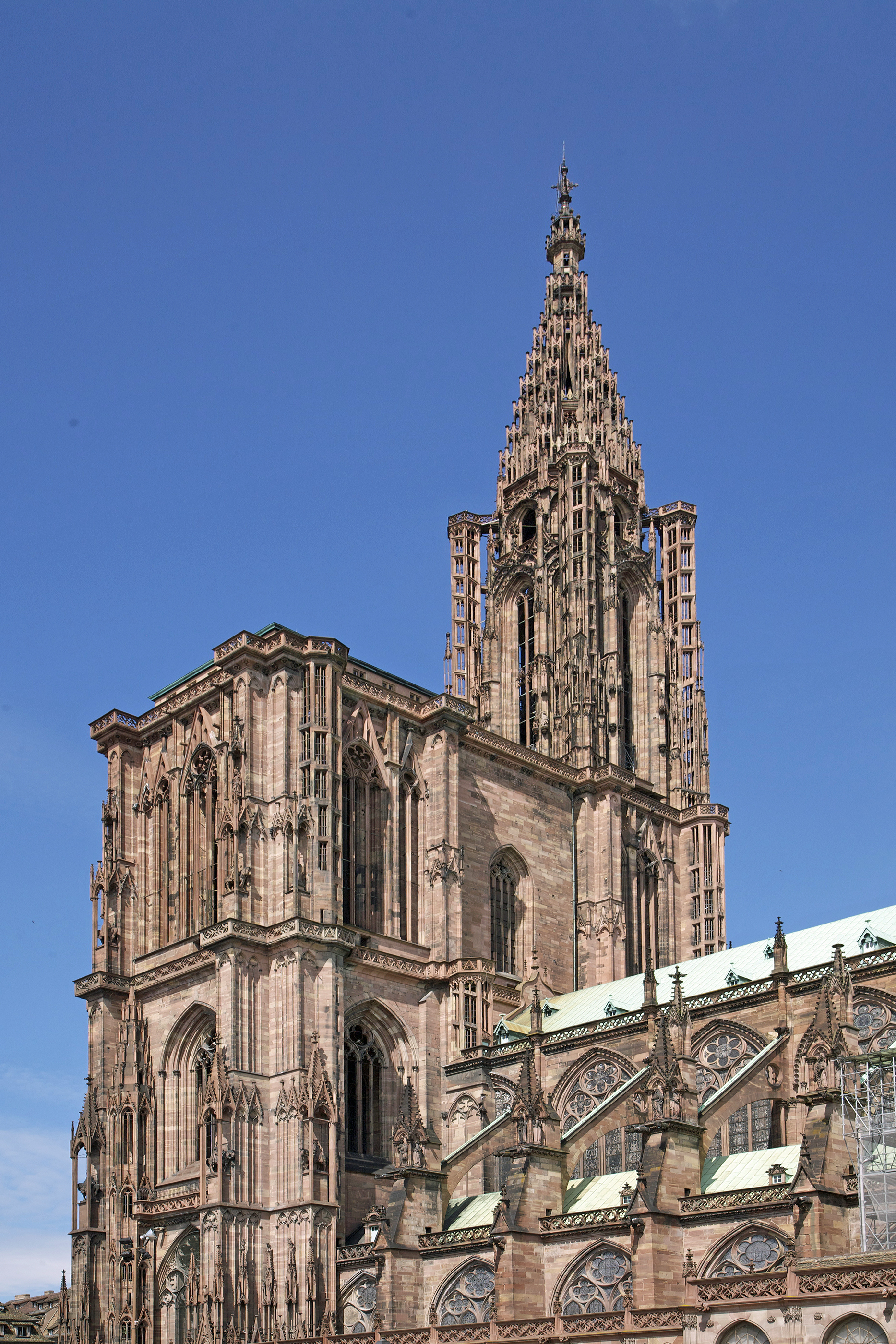 Strasbourg Cathedral (La Cathédrale Notre-Dame de Strasbourg). The church is one of the most important cathedrals of Europe.